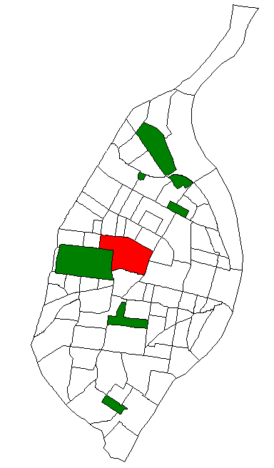 Map of St. Louis Neighborhood #38 (Central West End, or CWE)